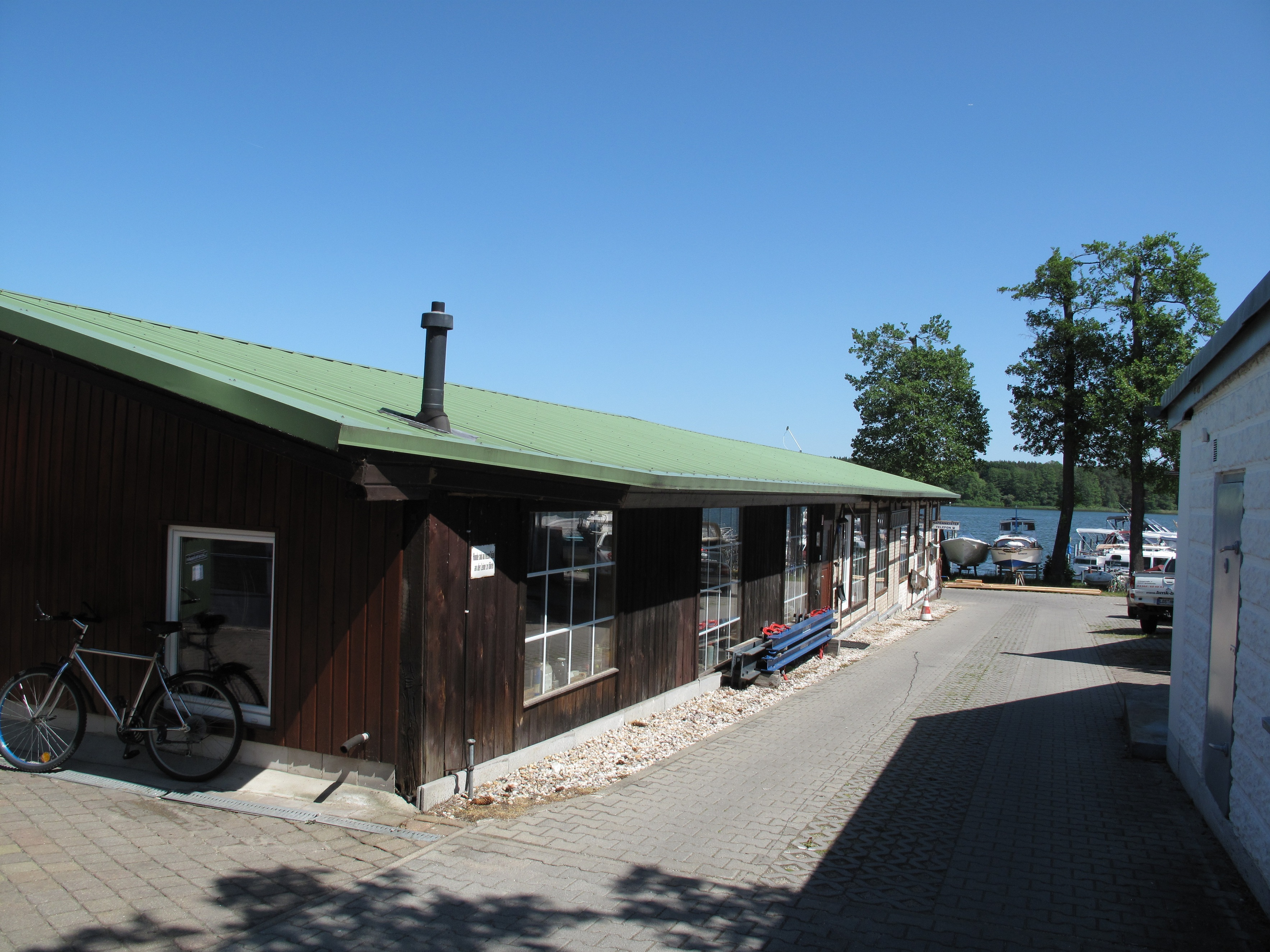 Shipyard (boat house) in Fangschleuse on the Werlsee. The Werlsee is a lake in Fangschleuse and Grünheide, parts of the municipality Grünheide, District Oder-Spree, Brandenburg, Germany. The lake covers 60 hectare.